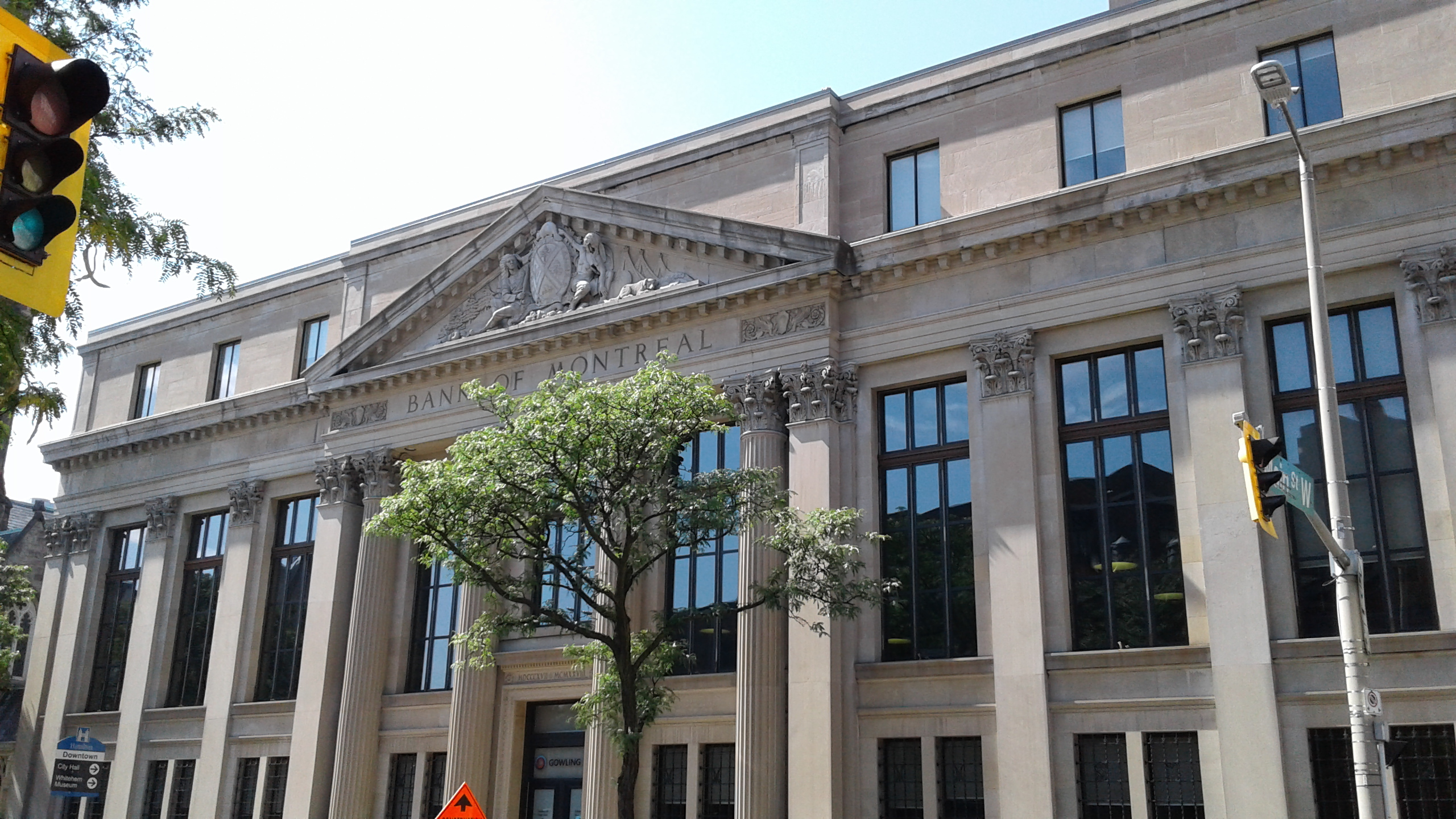 Bank of Montreal building at James and Main, Hamilton Ontario.